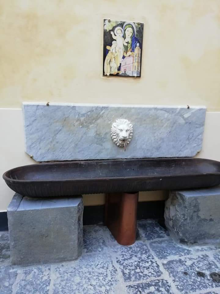 Fontana sita nel cortile di palazzo San Massimo